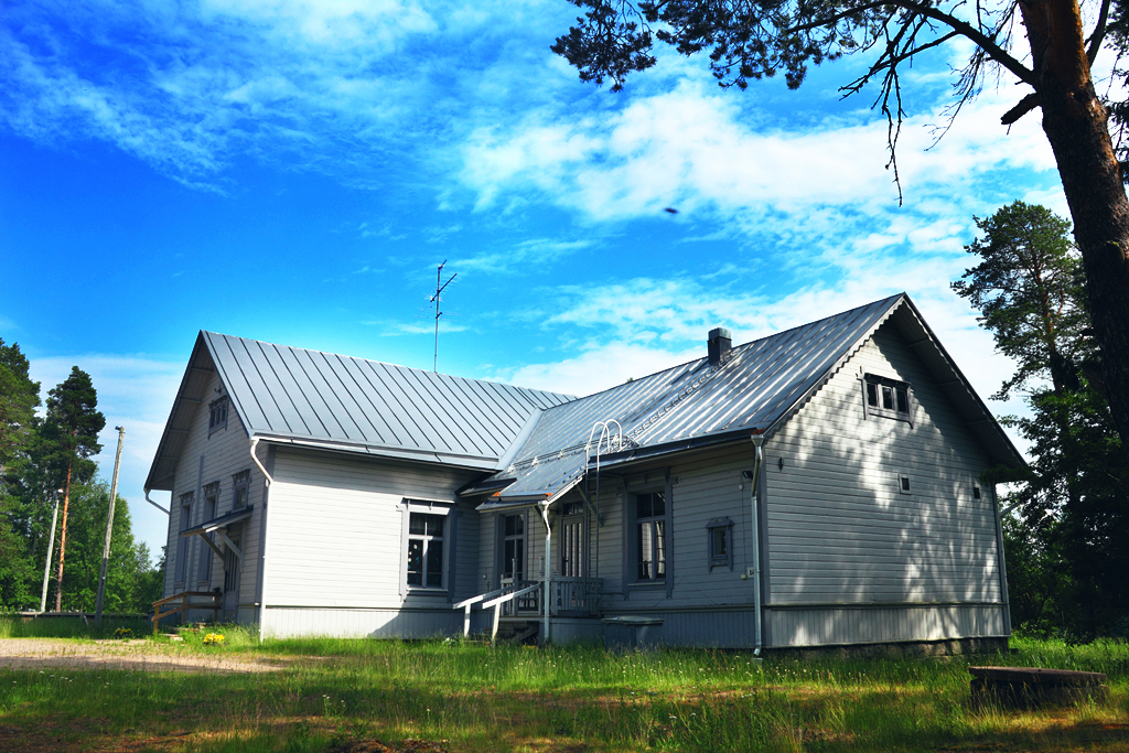 Photo of Laakkola old school, in Pulkkila, Siikalatva, Finland. The shcool has since been suspended.